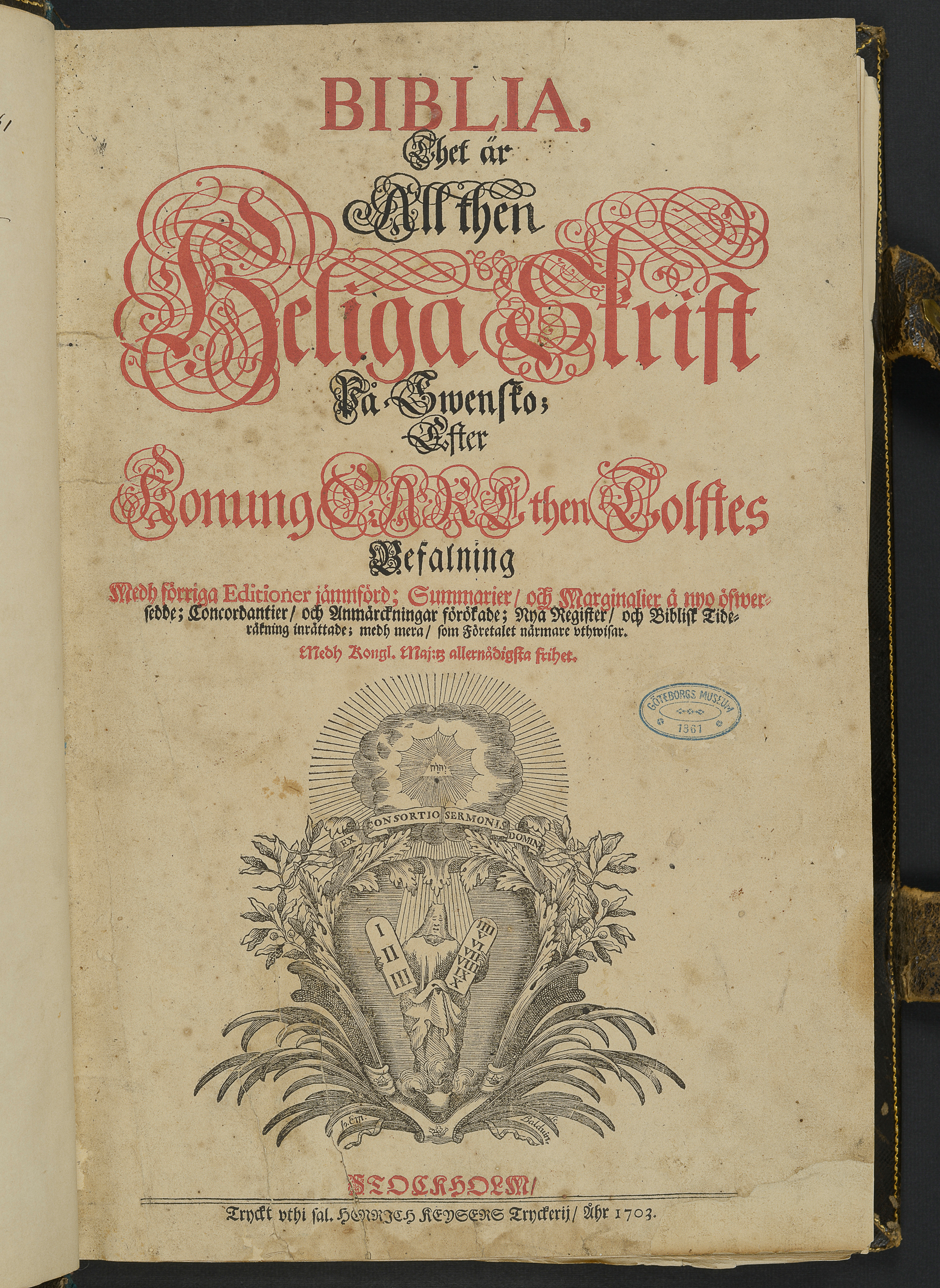 Picture of the Karl XII Bible printed in 1703